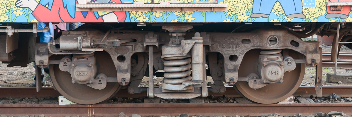 Sumitomo FS-316 bogie on Choshi Electric Railway 1000 series EMU car DeHa 1001